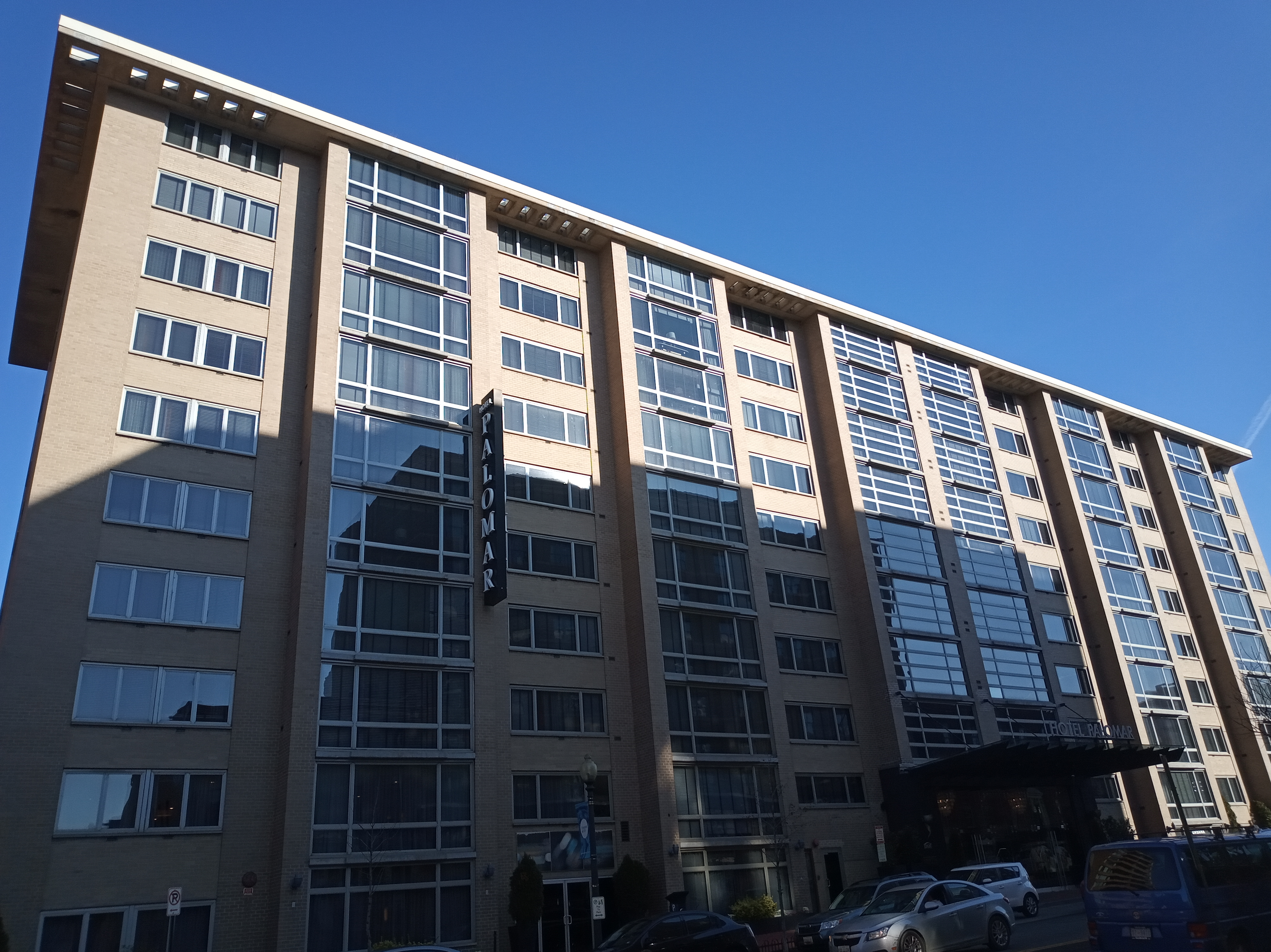 Kimpton Hotel Palomar in the DuPont Circle neighborhood of Washington DC.